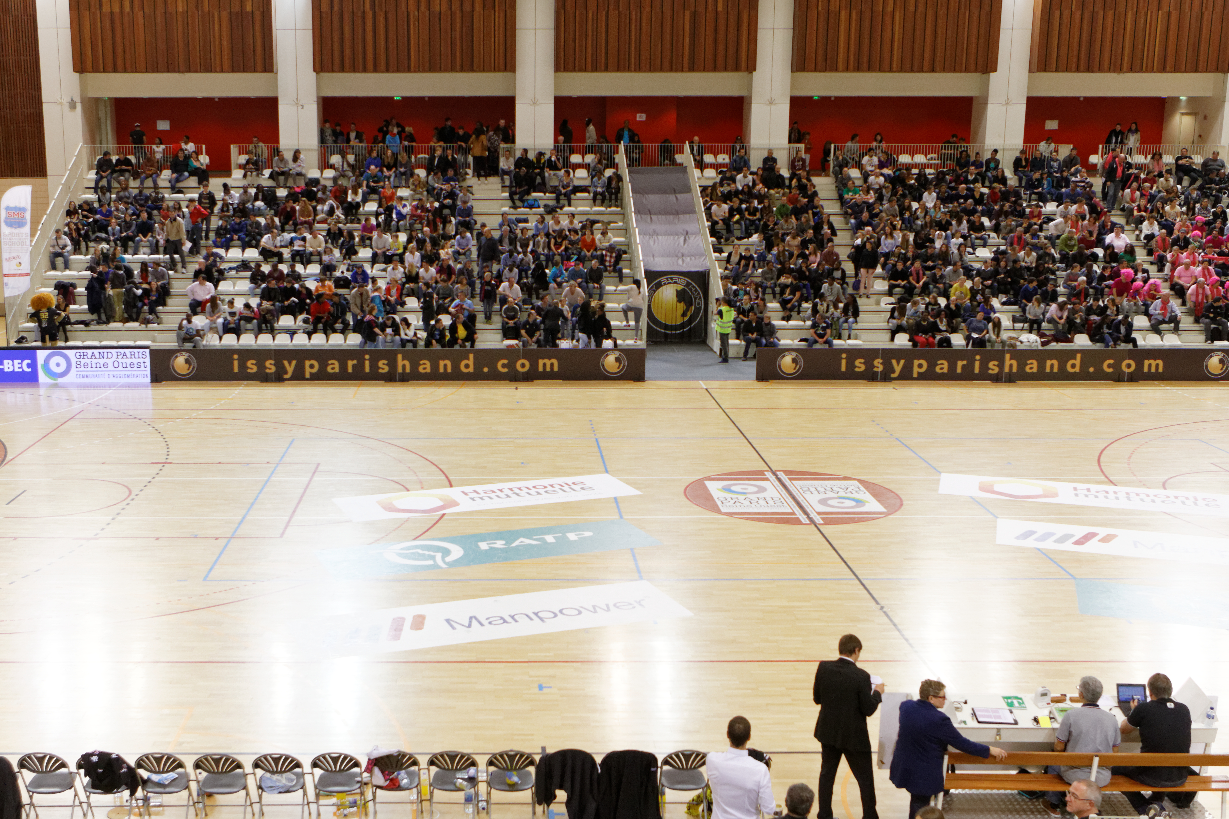 Division 1, Issy - Fleury, 29 October 2014.